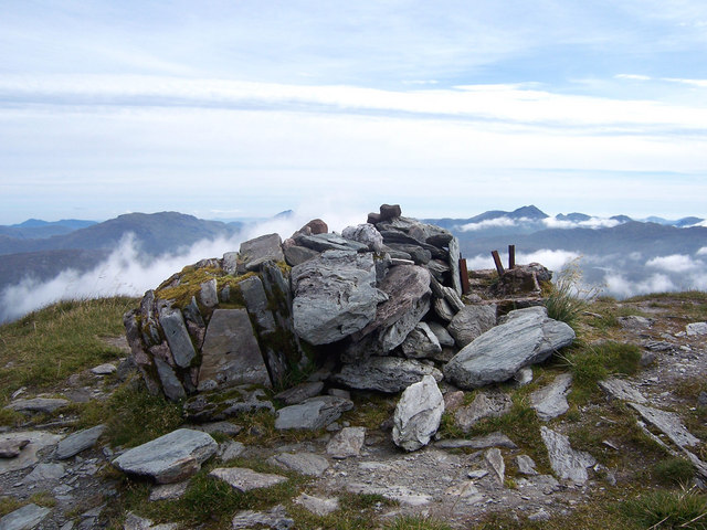 The deceased trig-point on the summit of Beinn Bhuidhe This shattered trig-point is a tribute to the strength of the prevailing South-West winds that buffets this isolated mountain.